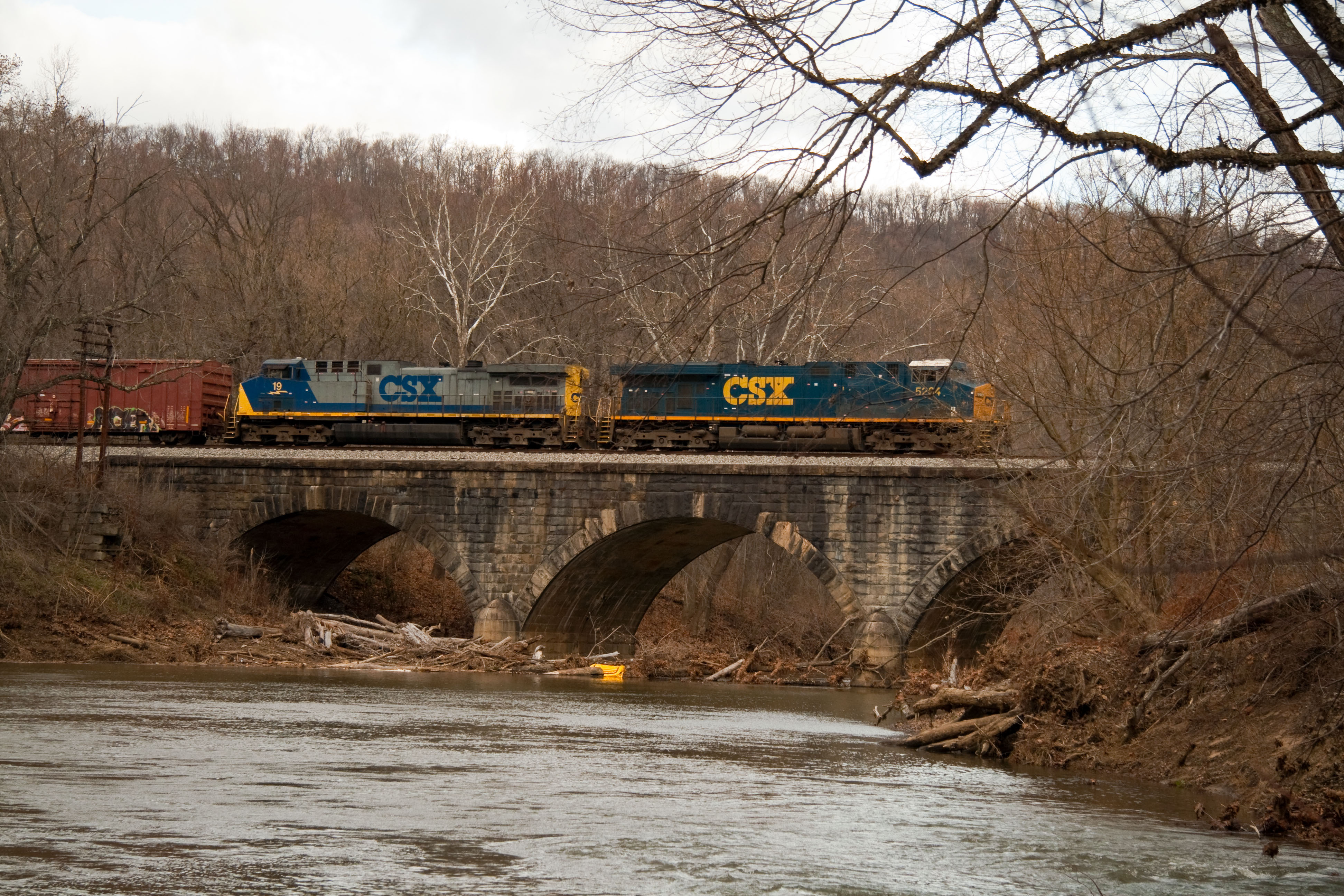 A CSX freight crosses the Cacapon River headed east on CSX's Cumberland Sub. The bridge is located in Great Cacapon, WV in the eastern panhandle of the state.